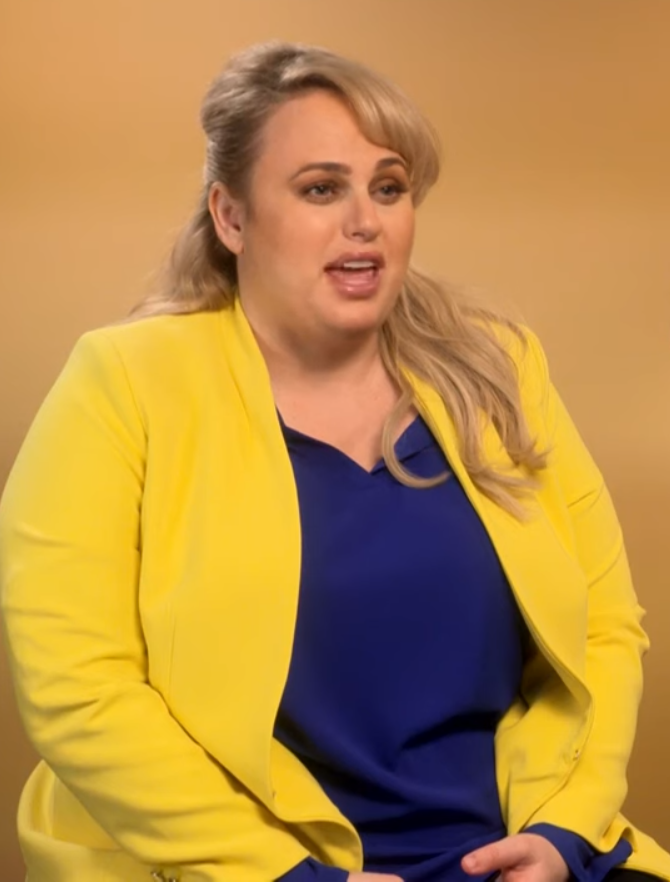 The Hustle star Rebel Wilson reveals exciting goss about the new Cats movie, talks Pitch Perfect sequels and an Ocean’s 8 The Hustle Crossover.